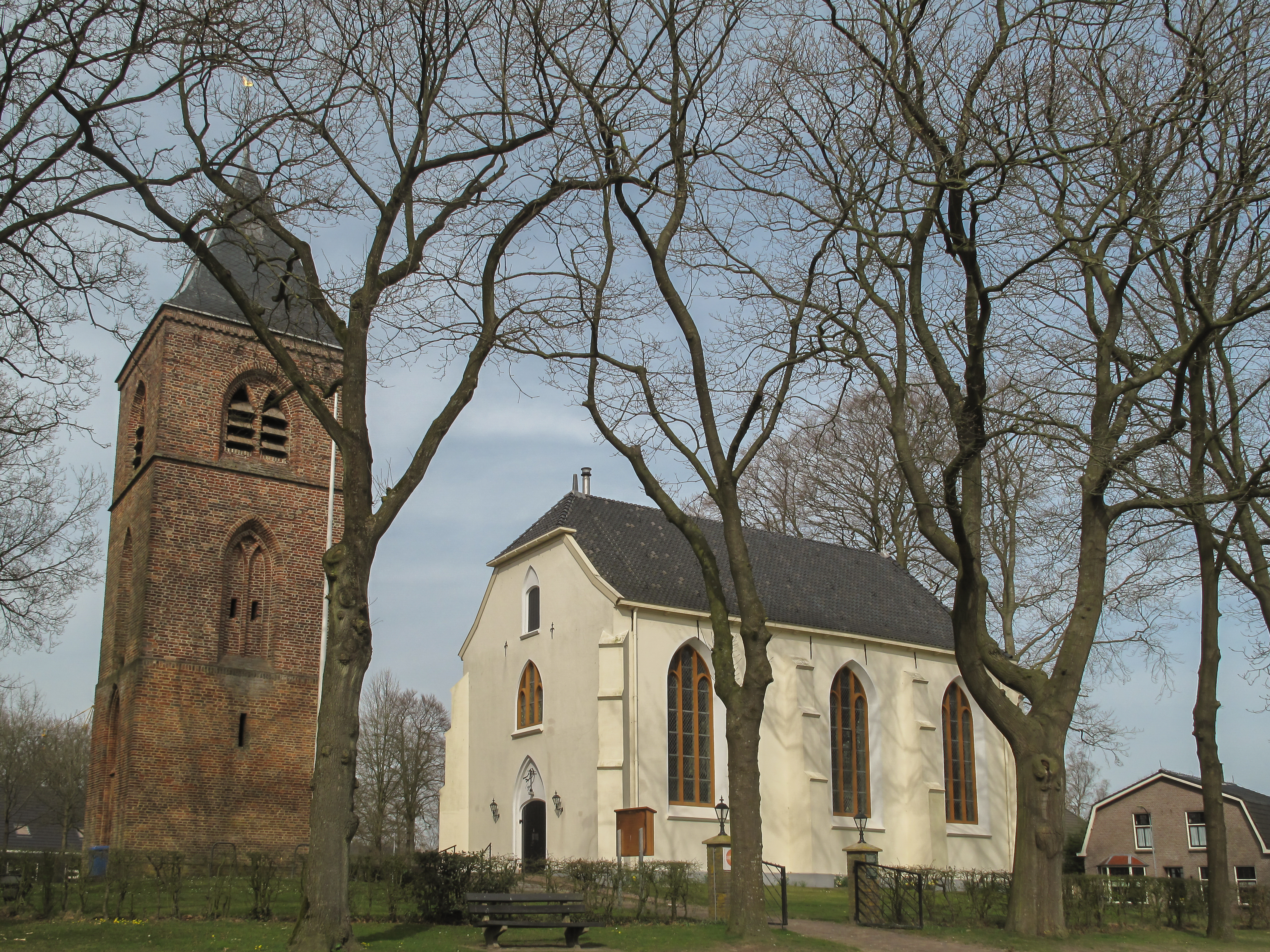 Oosterhesselen, church and tower